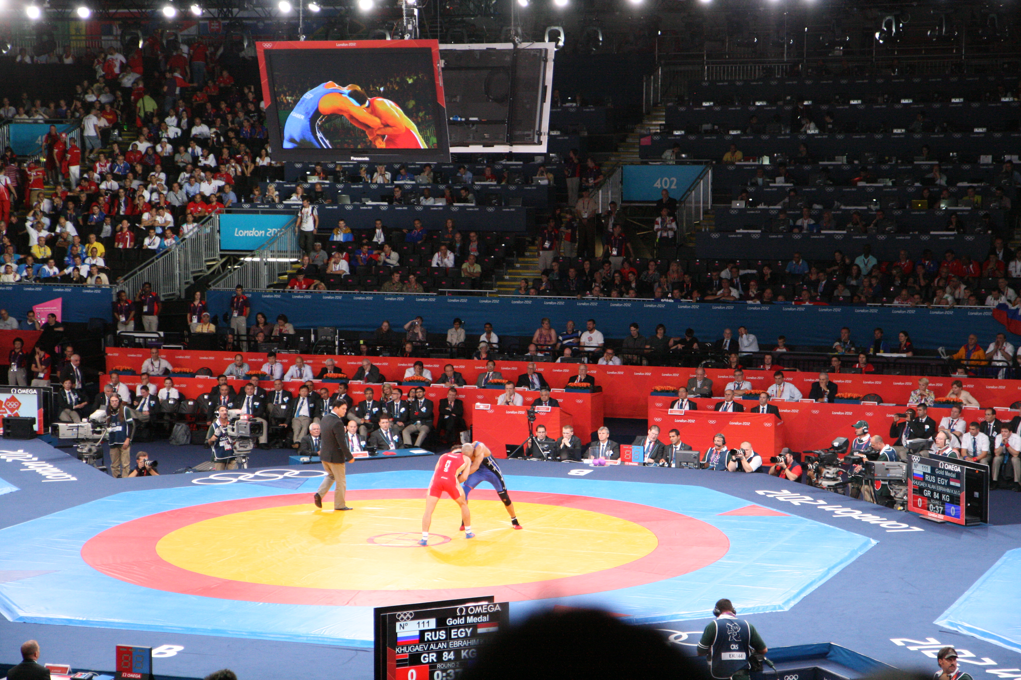 Wrestling at the 2012 Summer Olympics